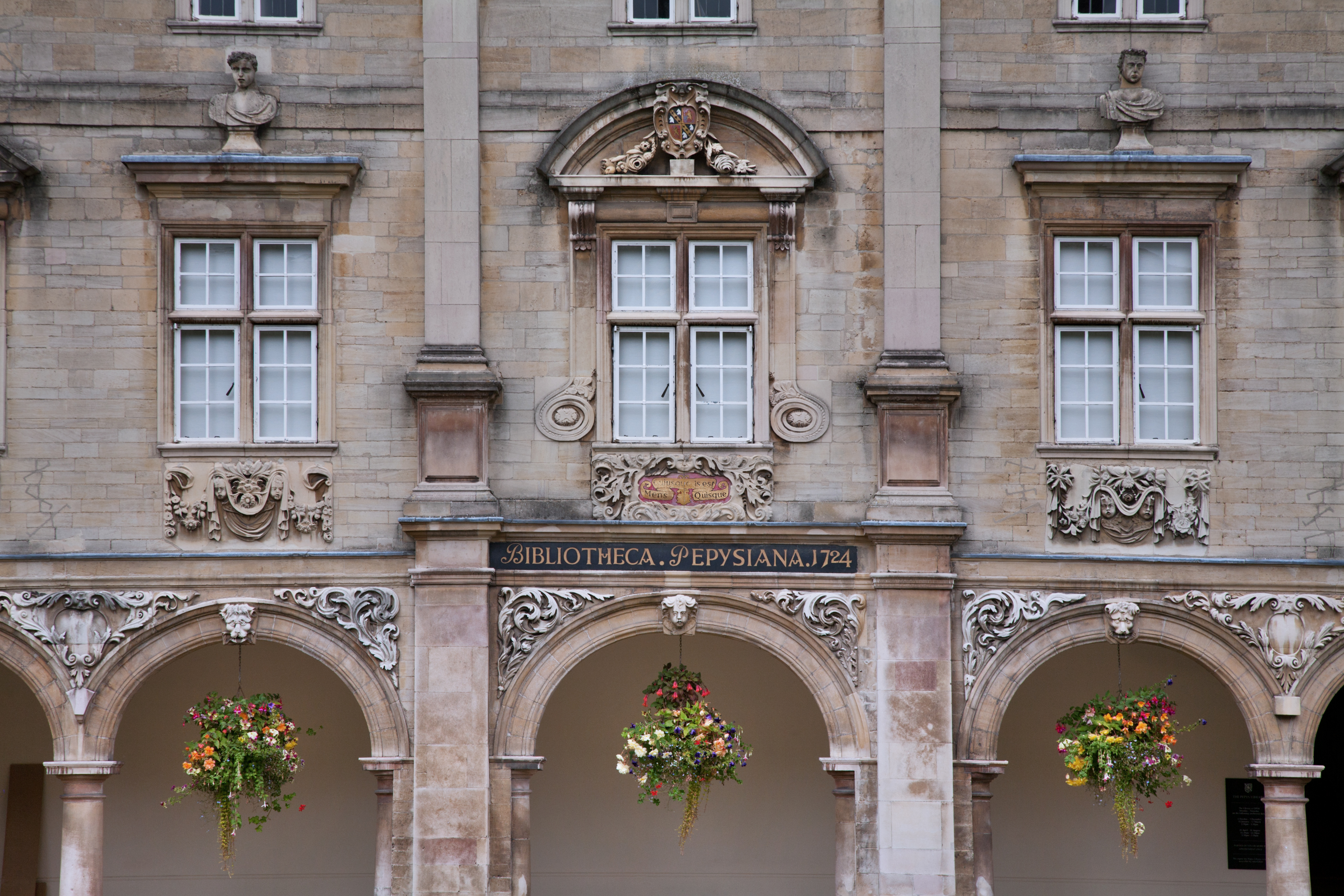 Pepysian Library. Magdalene College, Cambridge